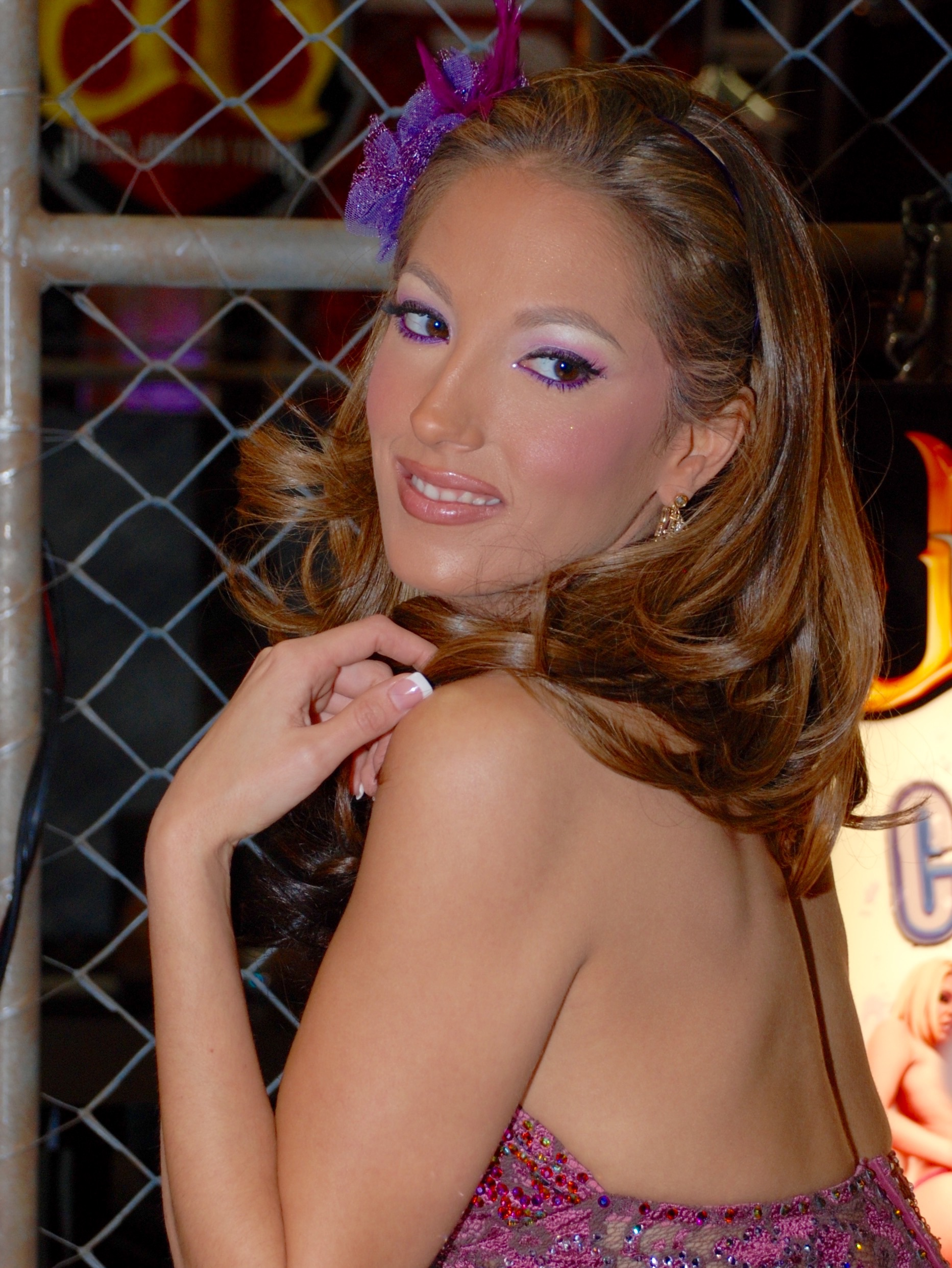 Jenna Haze at the 2009 Adult Entertainment Expo